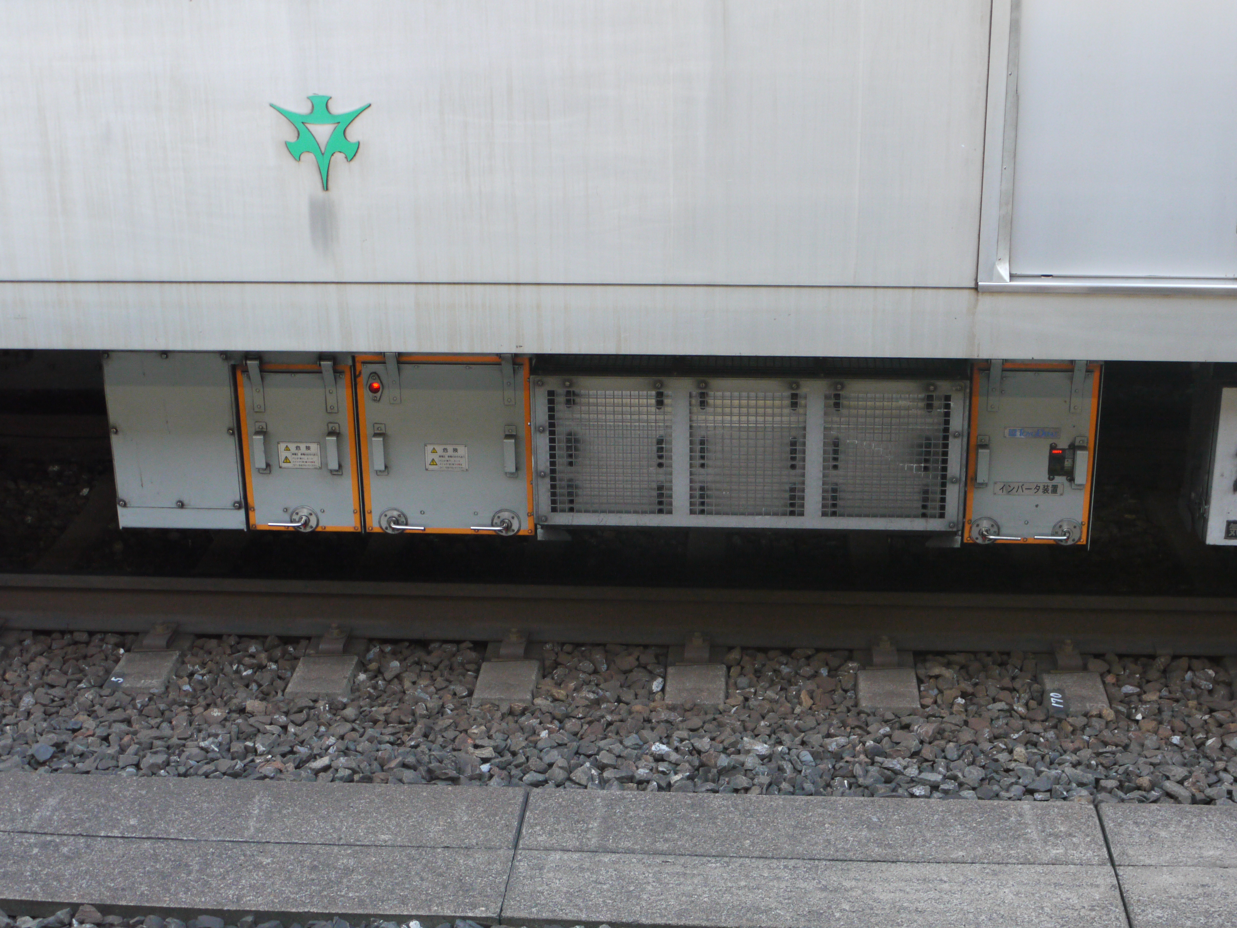 SVH150-4064A SIV on Kyoto subway 1301